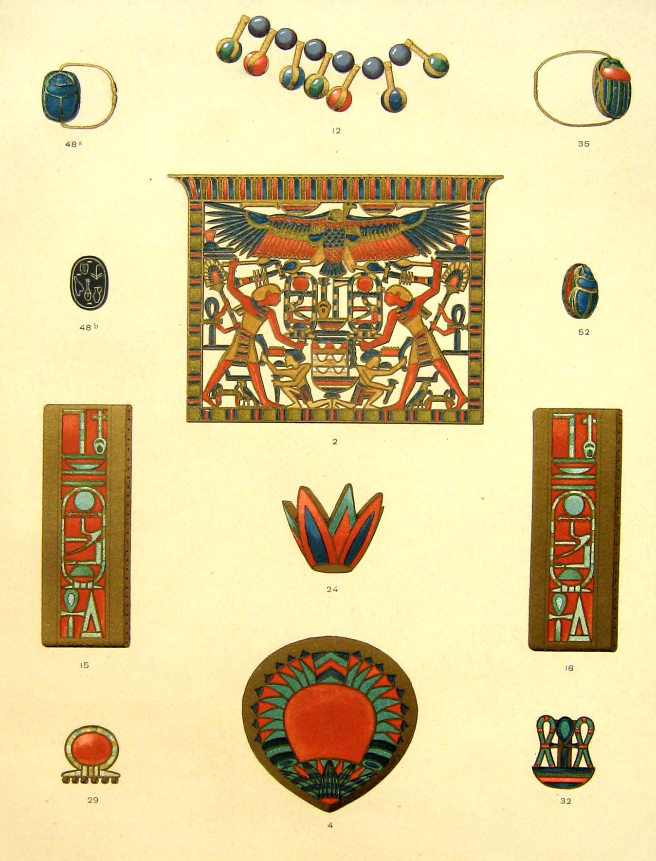 From the tomb of Princess Merit. The Egyptian hieroglyphs from the inside of this chapel-(shrine)-(Lord of the Sky-(pt), refers to both the Vulture Goddess_(And the Pharaoh-a double usage)-PECTORAL reading down speaks of the Pharaoh-(Amenenhat III):Lord (of) Heaven, God(phar.)-Good, Lord (of) Tawy-(two lands), Ny-Maat-a-t, (Truth of Ra)-("Ra's Truth"), Lord (of) Lands (all (foreign) Lands)pt-nb, ntr nfr, nb taui, Ny-Maat-Ra-(Amenemhat III), hastw nb.see Pectoral (Ancient Egypt)